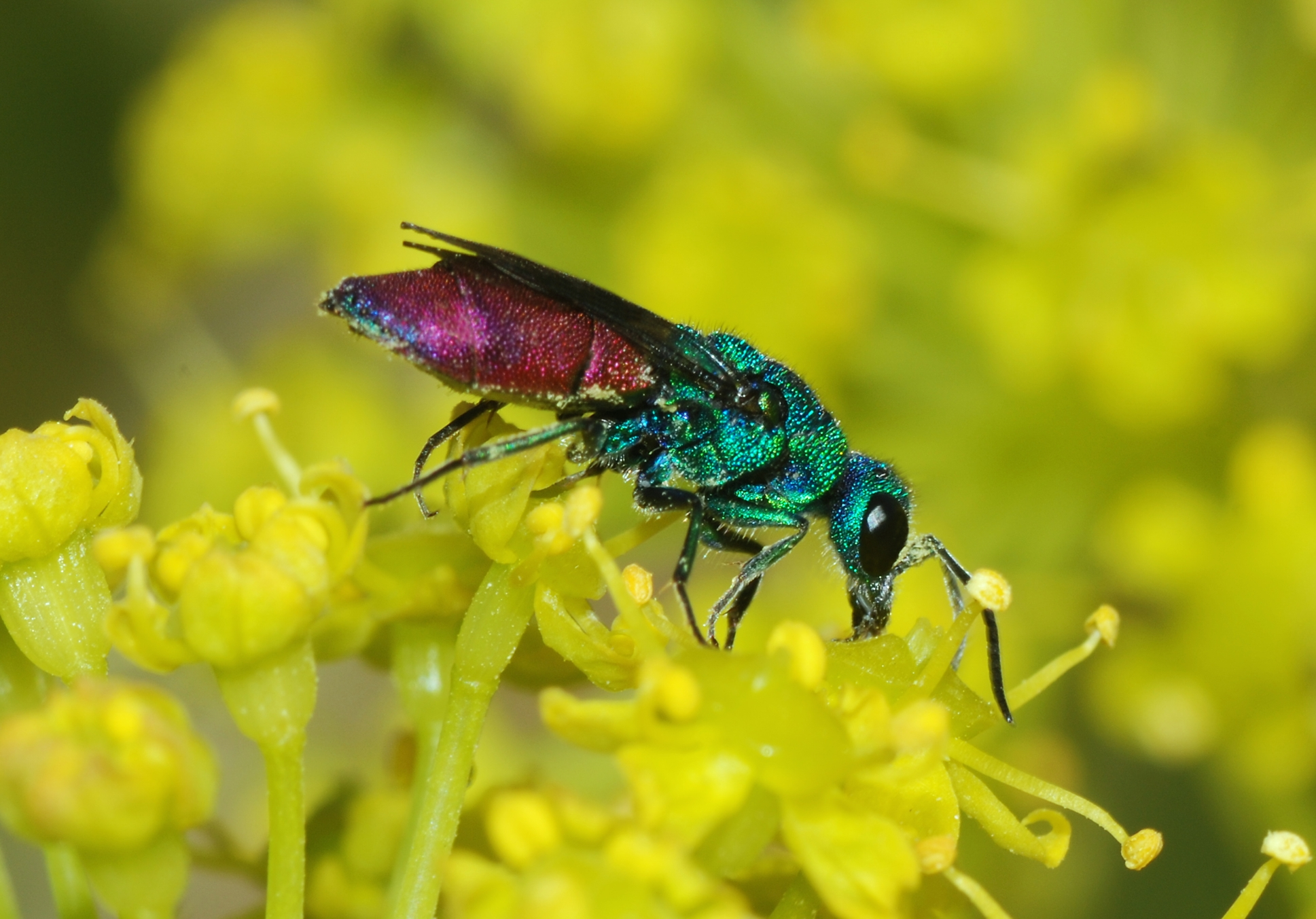 A Cucko Wasp (Chrysura refulgens)